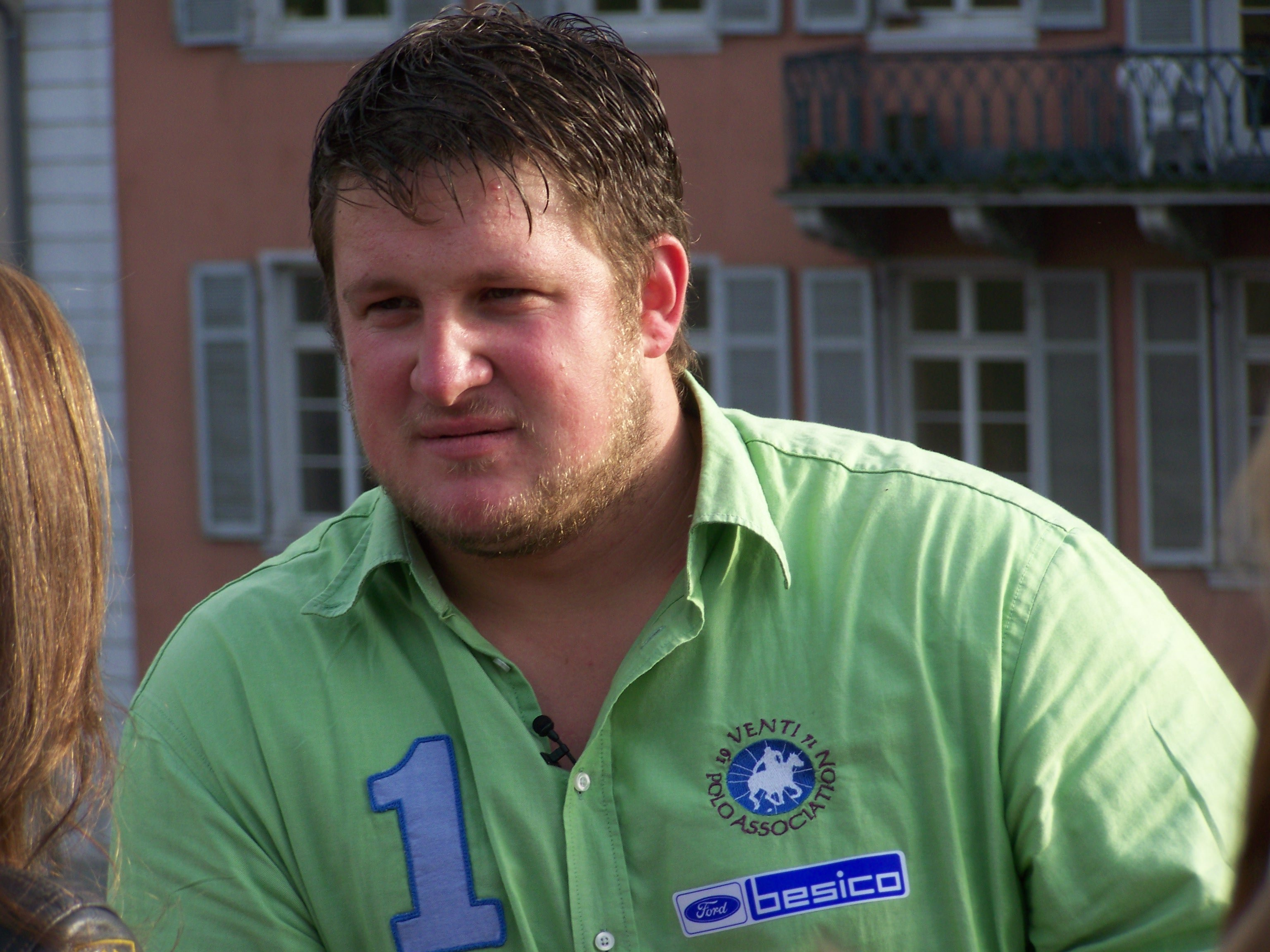 Matthias Steiner (Weightlifter)